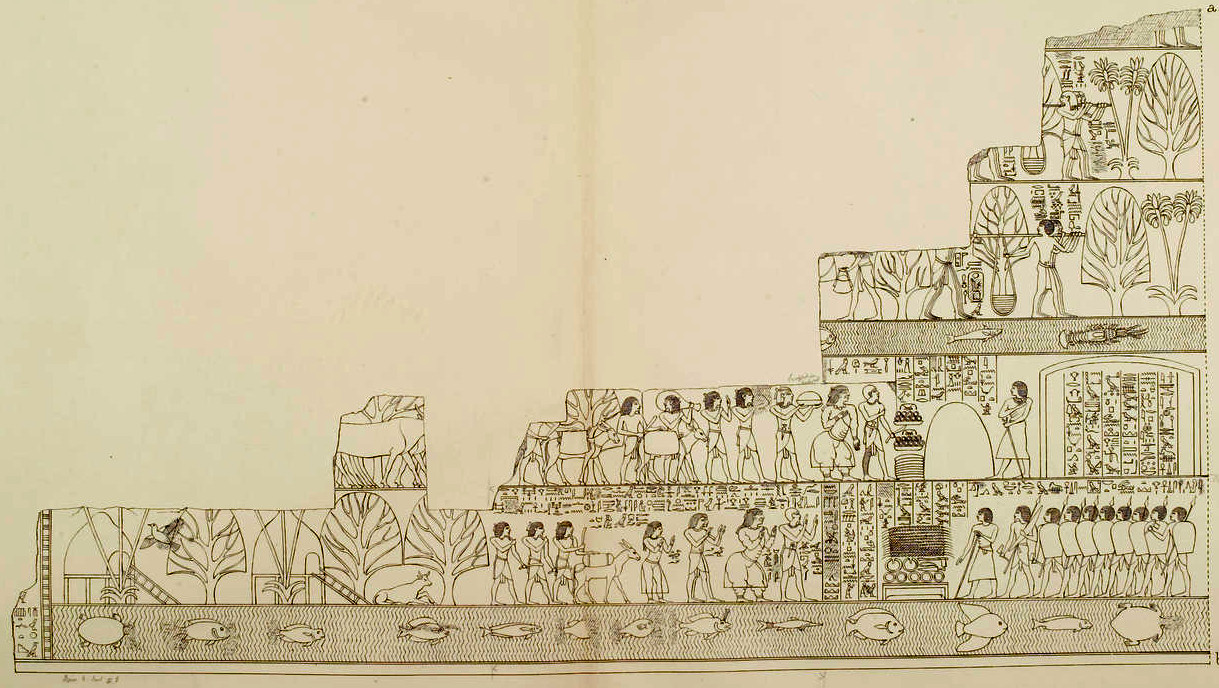 Procession of the prince of Punt, accompanied by family and followers.